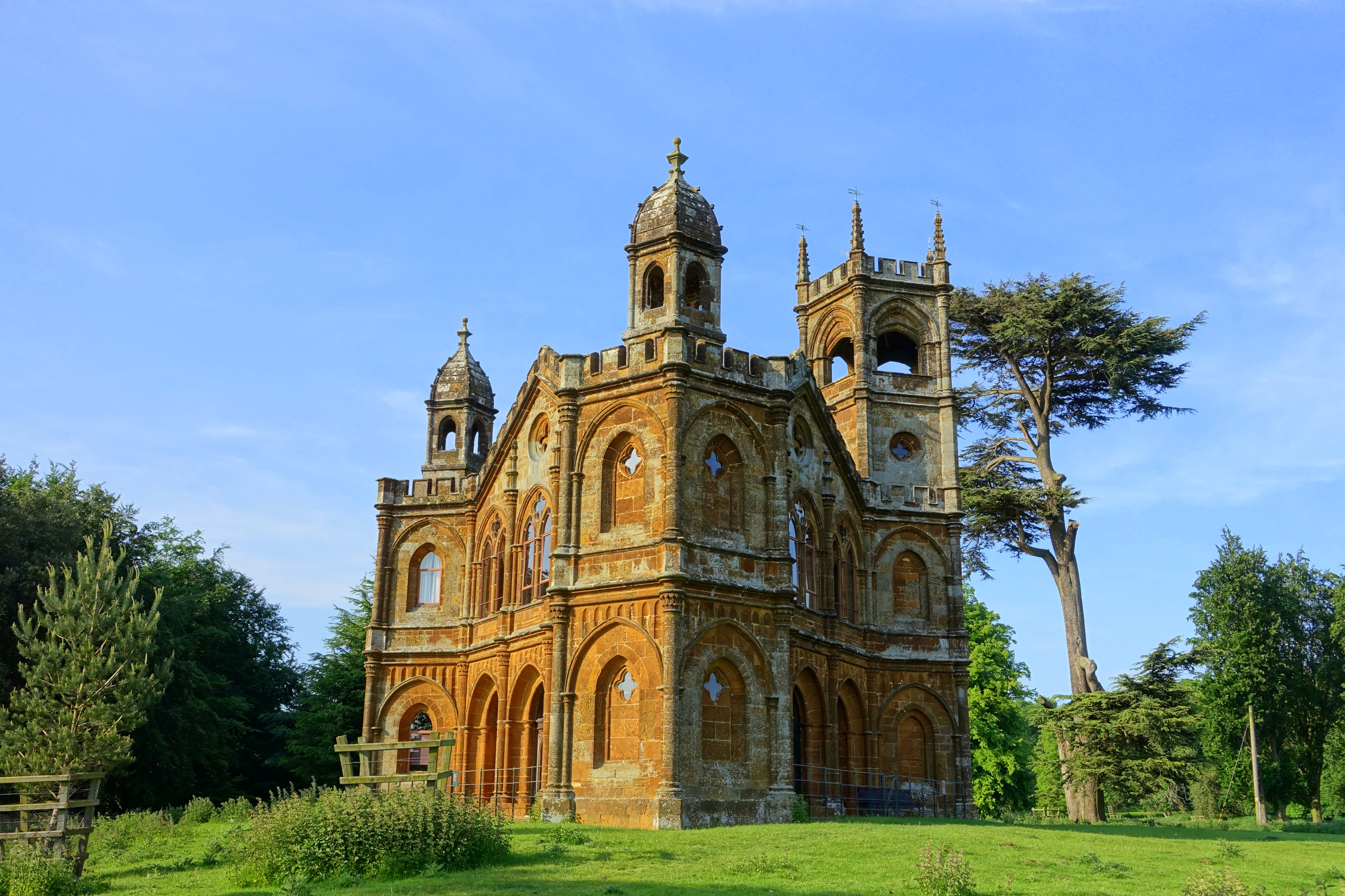 Gothic Temple, Stowe - Buckinghamshire, England.